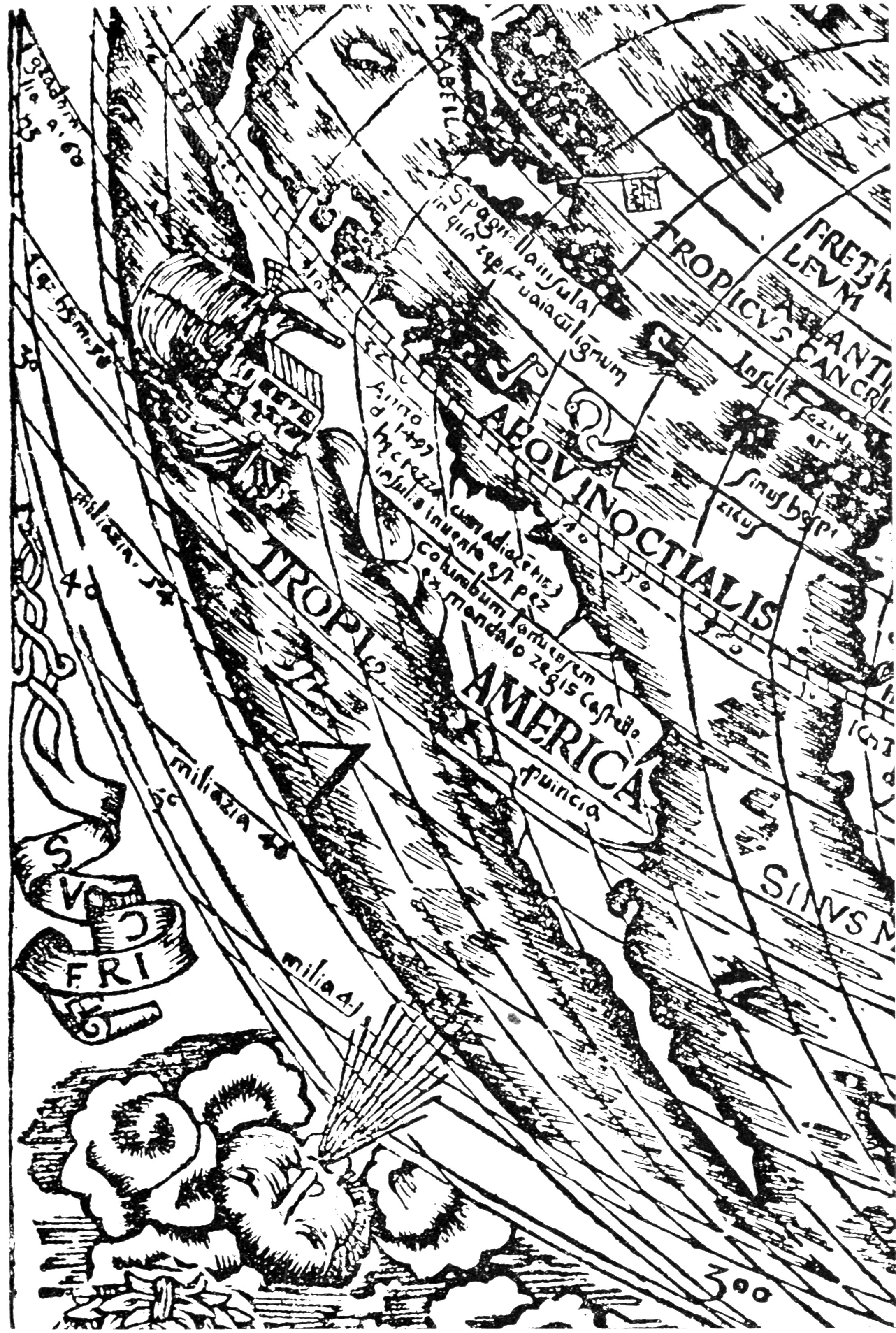 Scan from "Narrative and critical history of America, Volume 2" by Justin Winsor. Scans for whole book are at